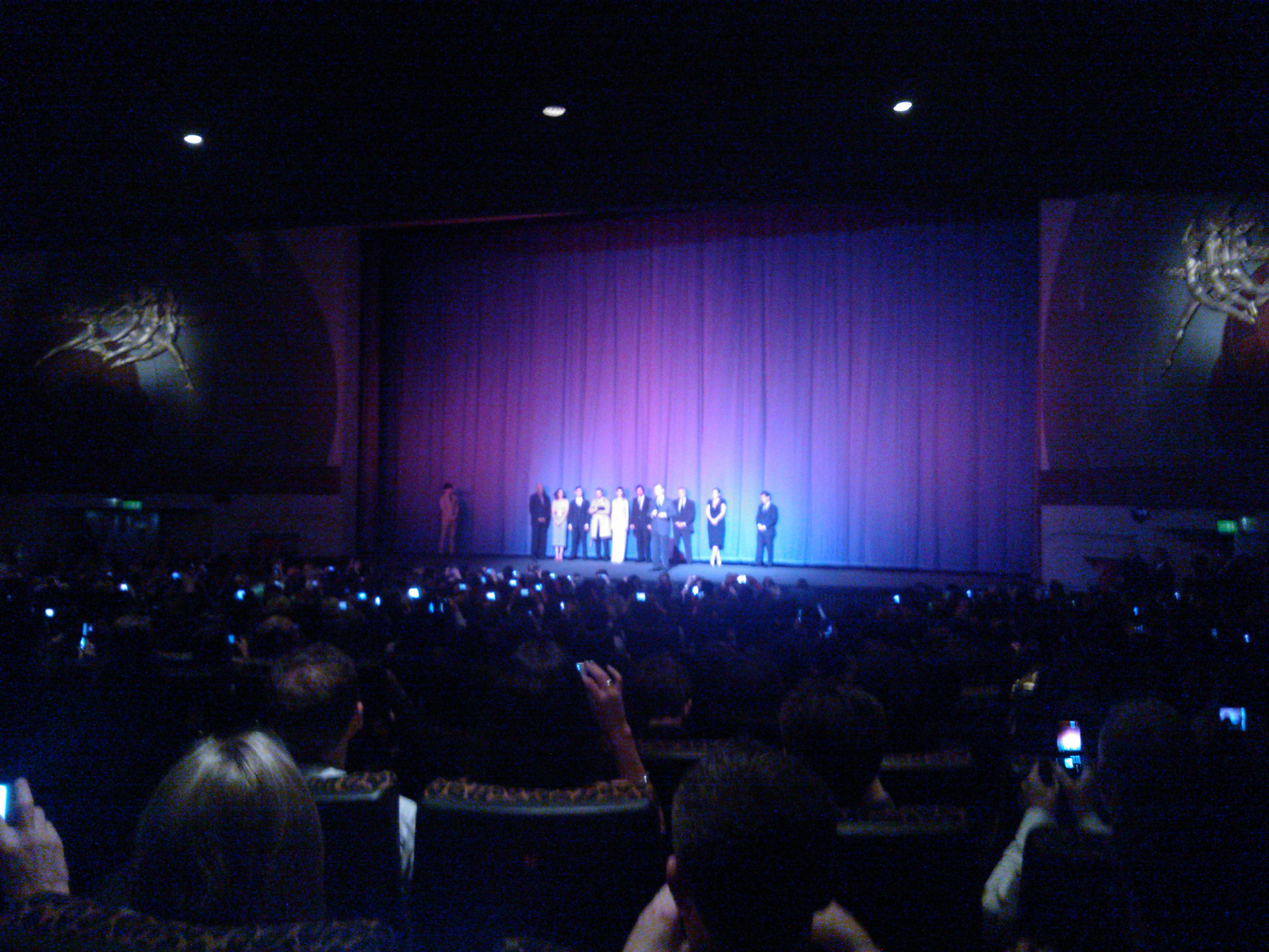 Chris Nolan and friends.. on stage, before the film JGL, Bale, Miss Hathaway etc.. Brilliant!